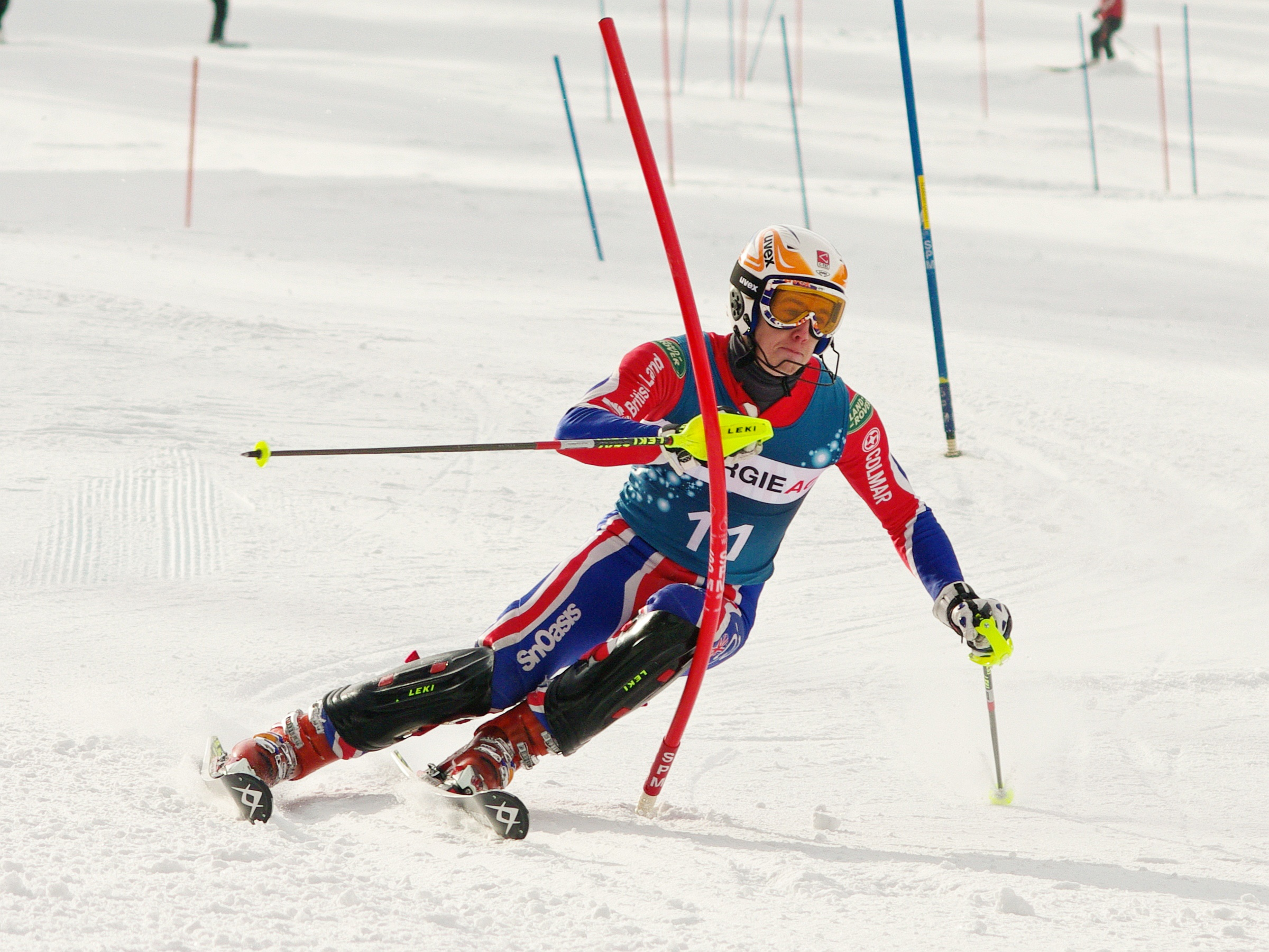 British alpine skier David Ryding in the first run of the FIS-Slalom in Hinterstoder, Austria, on 10 March 2010.